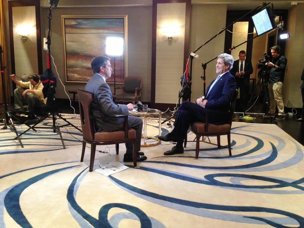 U.S. Secretary of State John Kerry conducts an interview with Fox News' James Rosen in Doha, Qatar, on March 5, 2013. [State Department photo/ Public Domain]